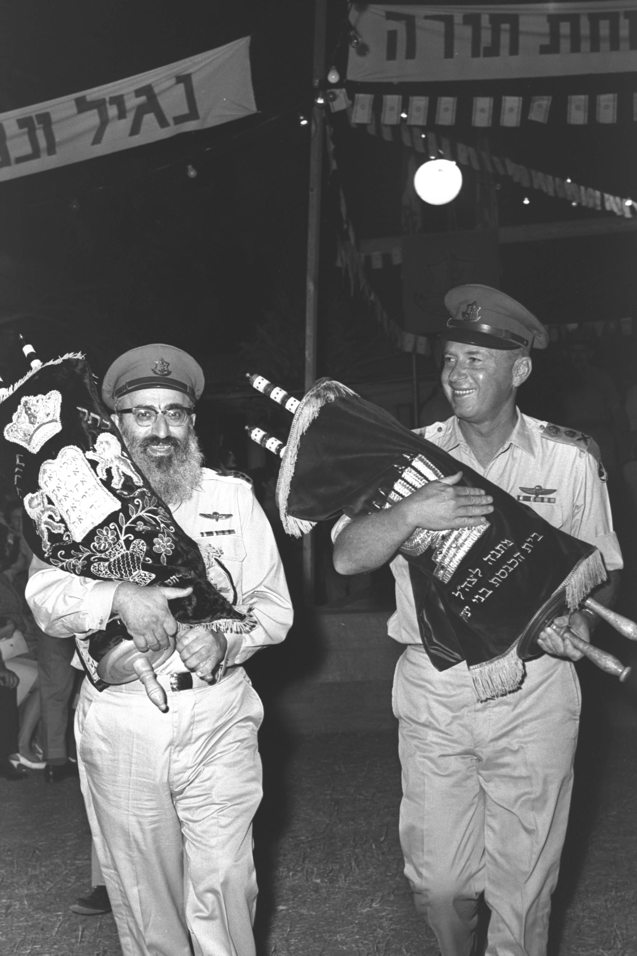 רבין ושלמה גורן בהקפות שמחת תורה